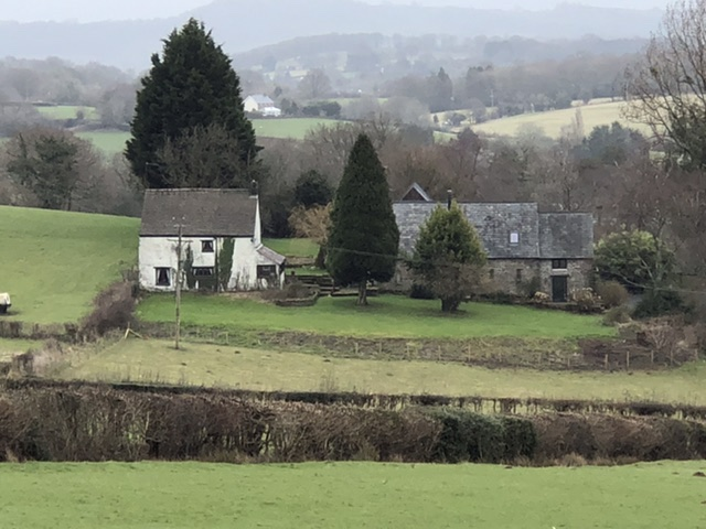 Persondy, originally the parson’s house, in Mamhilad, near Pontypool, Monmouthshire. The building is Grade II* listed.